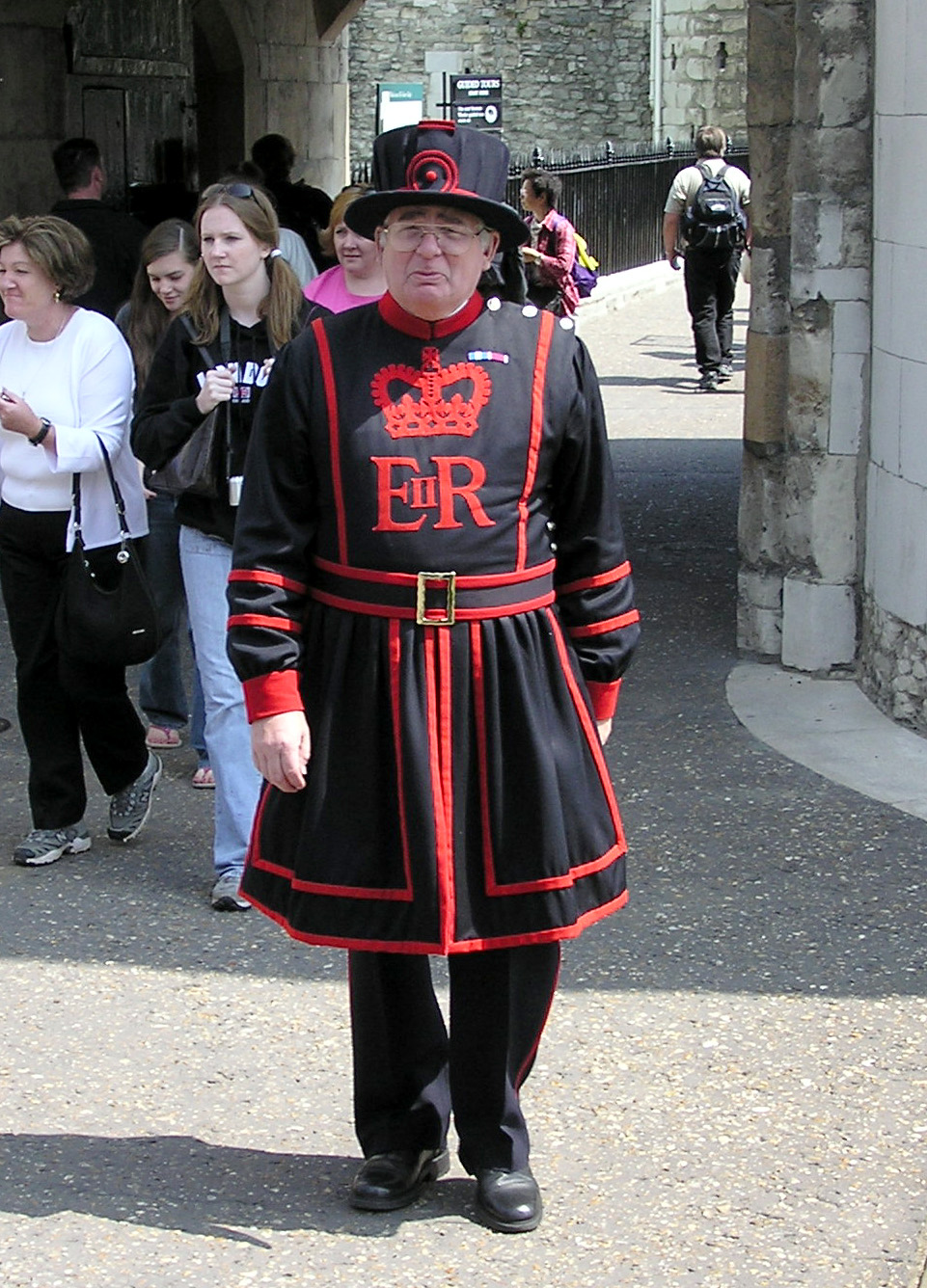 Yeoman Warder at the Tower of London, London, England. Photographed by Adrian Pingstone in June 2005 and released to the public domain.